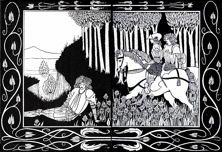 Aubrey Beardsley for Le Morte d'Arthur, book X, chapter XIV - Publisher: J. M. Dent & Co., London, 1893-1894